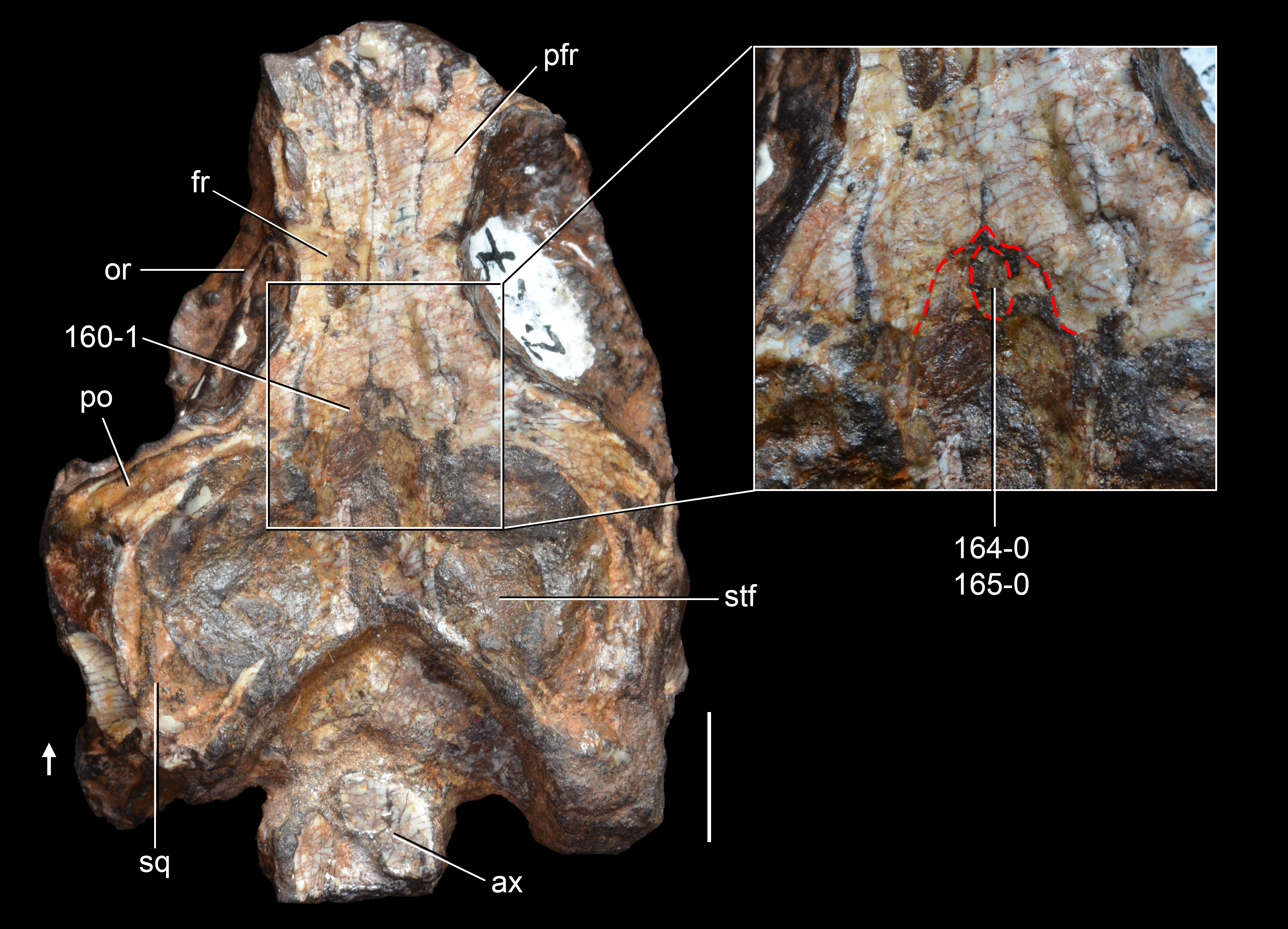 Partial skull of a referred specimen of Jesairosaurus lehmani (ZAR 07) in dorsal view, and close up of the pineal foramen and frontal–parietal suture. Numbers indicate character-states scored in the data matrix and the arrow indicates anterior direction. Abbreviations: ax, axis; fr, frontal; or, orbit; pfr, prefrontal; po, postorbital; sq, squamosal; stf, supratemporal fenestra. Scale bar equals 5 mm. Character state scores= 160-1: The parietals extend a noticeable degree over the interorbital region. 164-0: The parietals possess a pineal foramen which is large in dorsal view. 165-0: The pineal foramen is completely enclosed by the parietals.